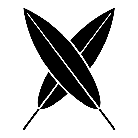 Japanese crest, Chigai ashinoha